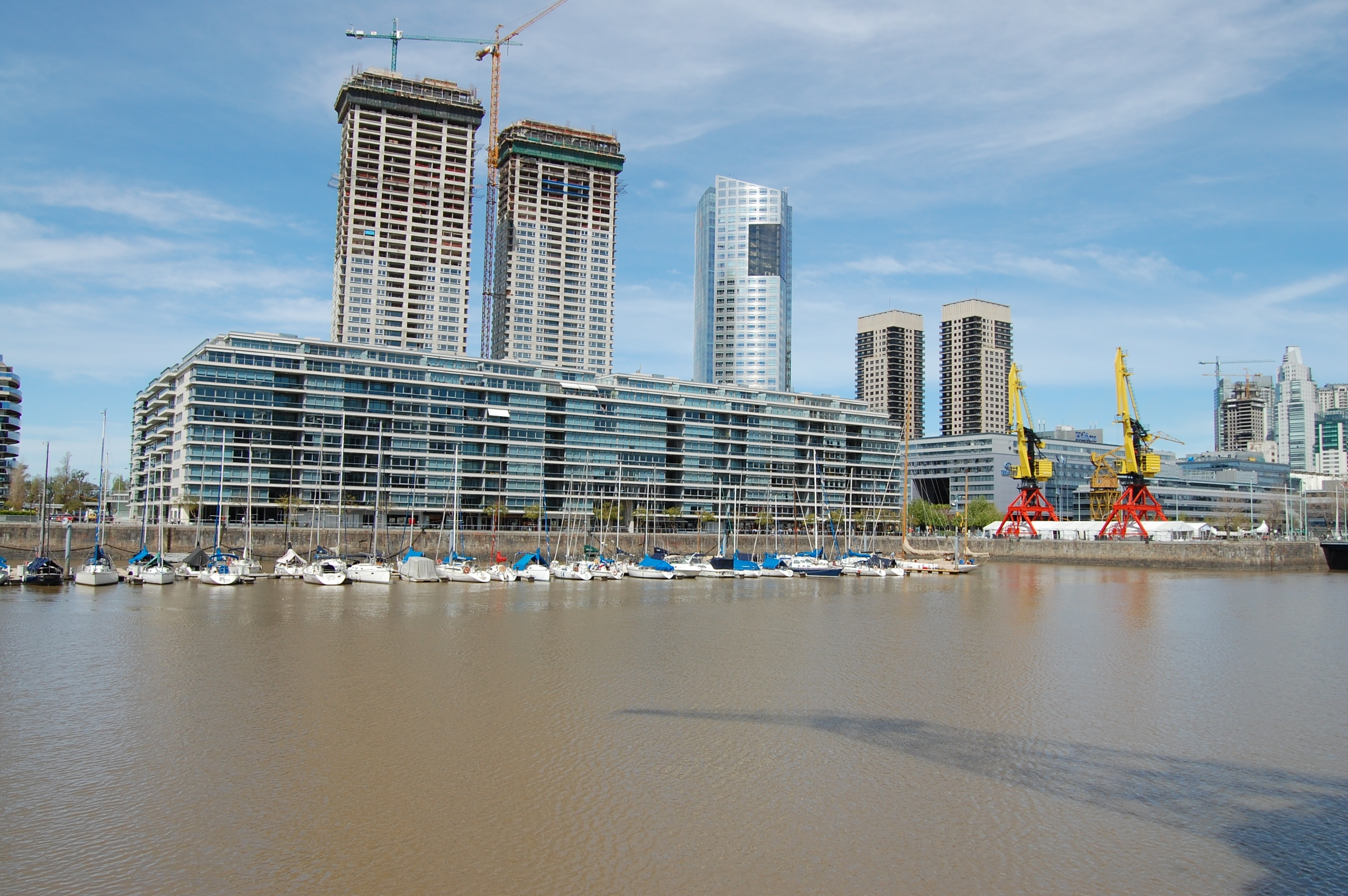 Torres de Yacht, under construction in the Puerto Madero section of Buenos Aires.